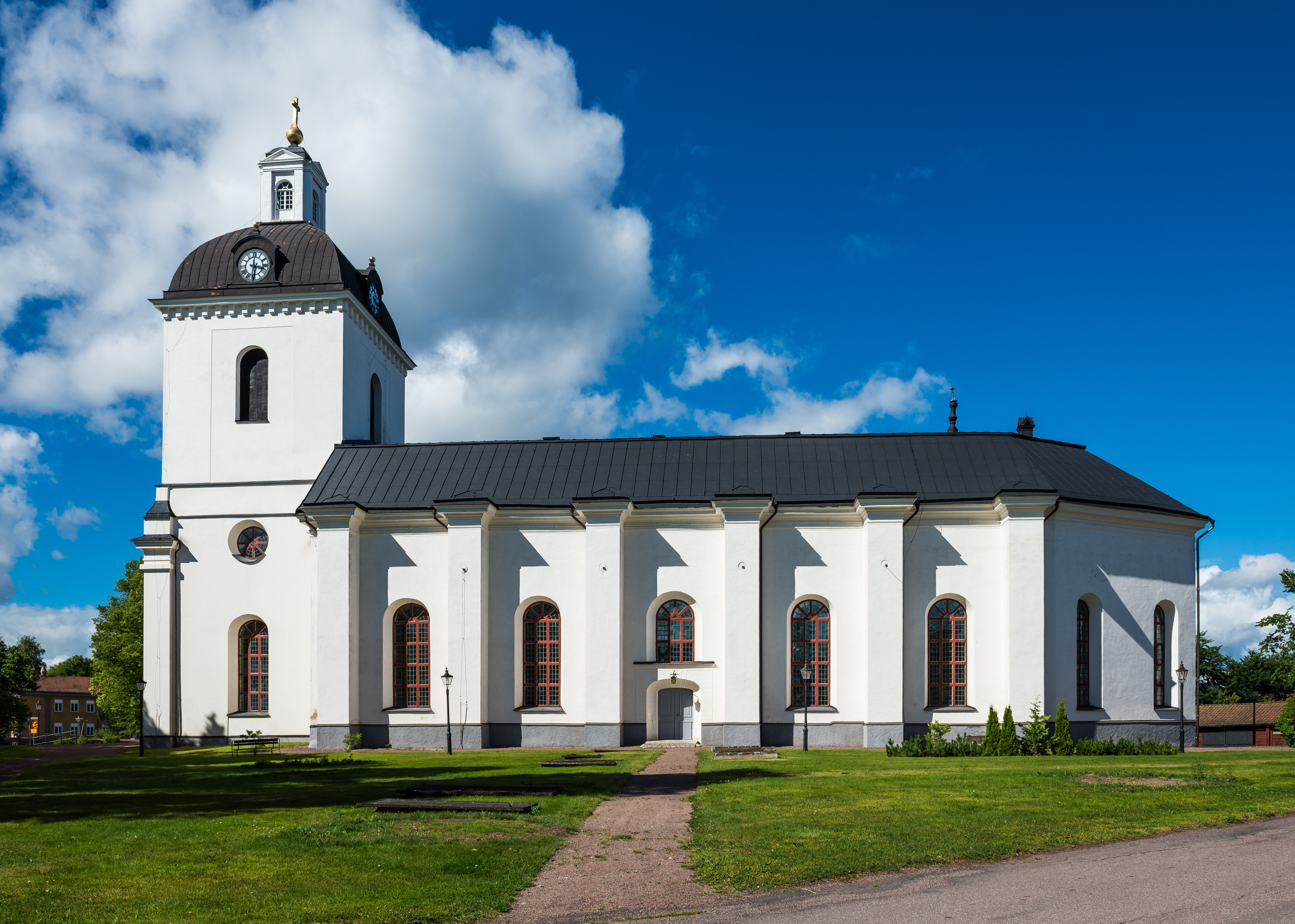 Säter Church, Säter, Sweden